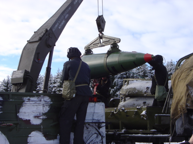 10-12.02.2004 - fire training and its live practice in winter in Poland within Drawsko Training Area. Technical battery - fitting the warhead.